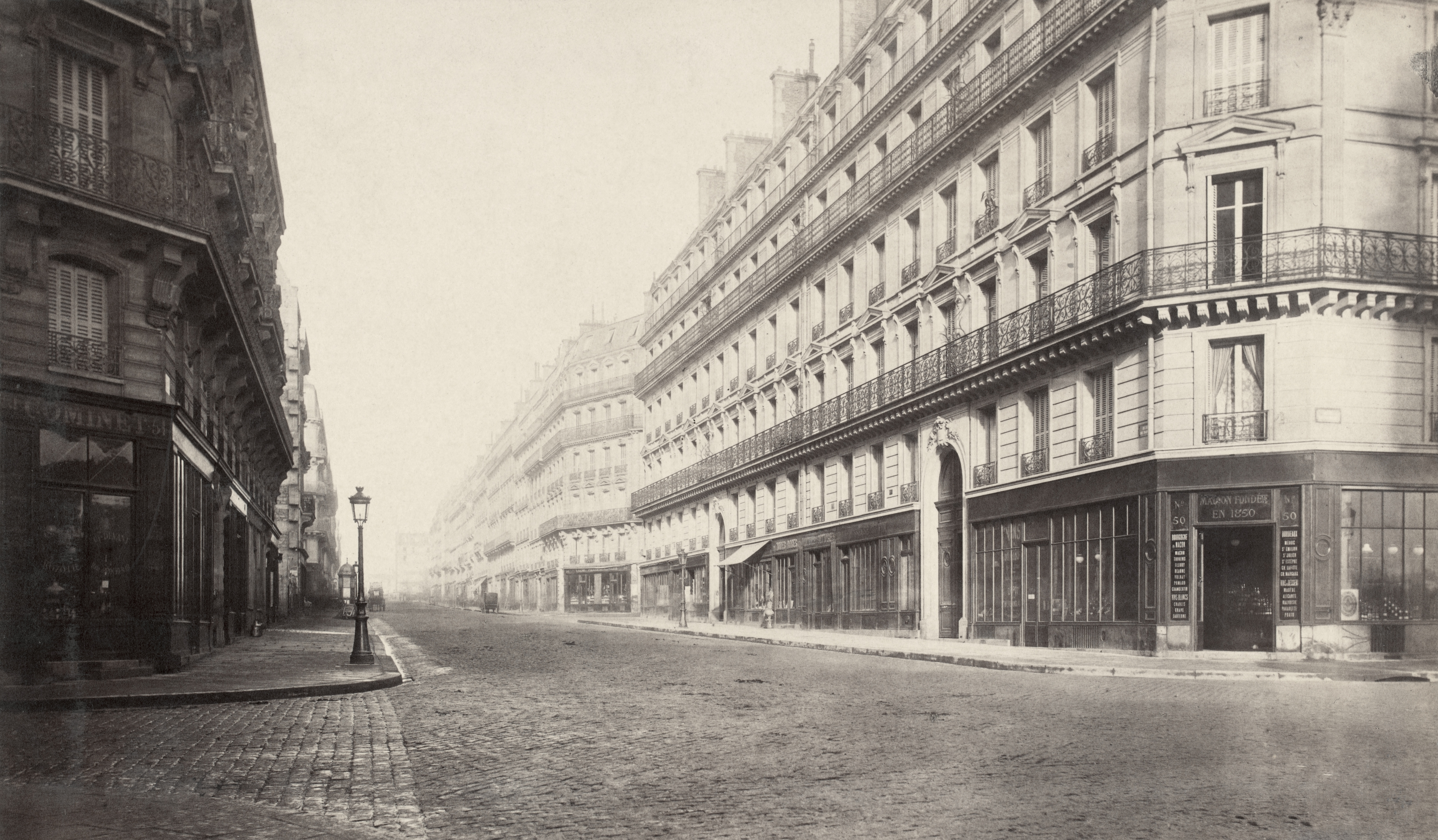 Looking along street with multistorey buildings on both sides with wrought iron balconettes, corner building in right foreground with sign above door: Maison Fondée.